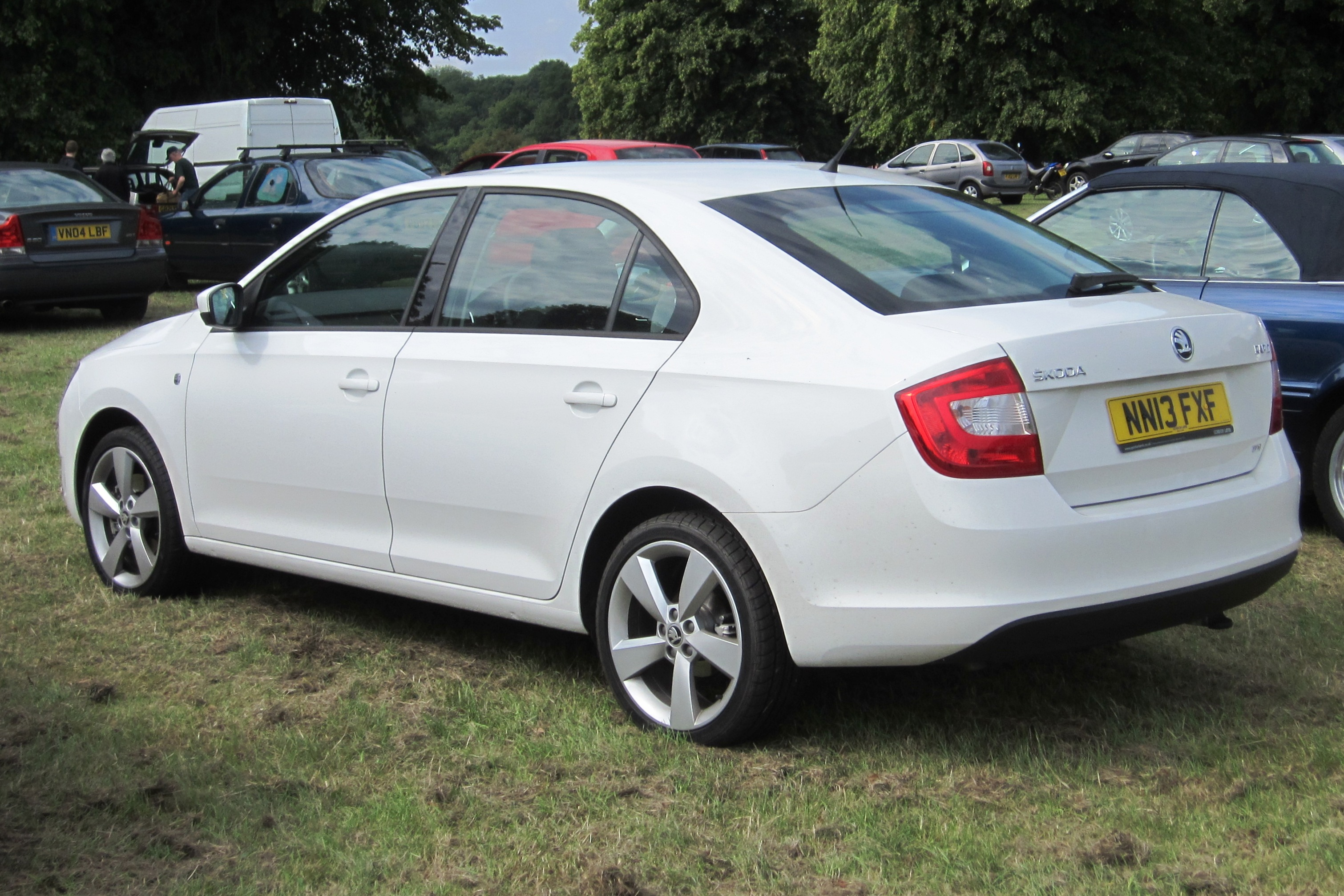 Skoda Rapid (2013)